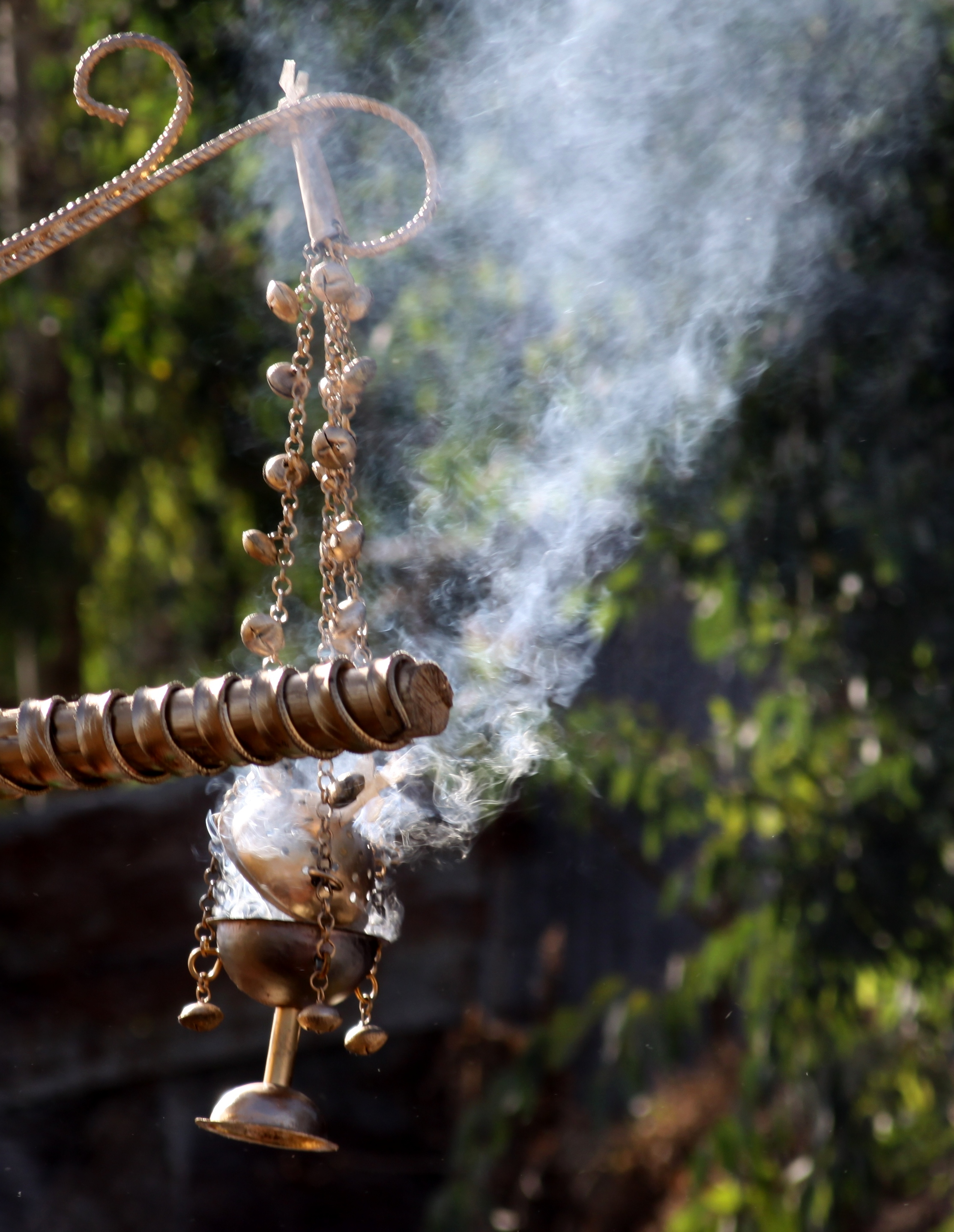 Thurible in Ethiopia